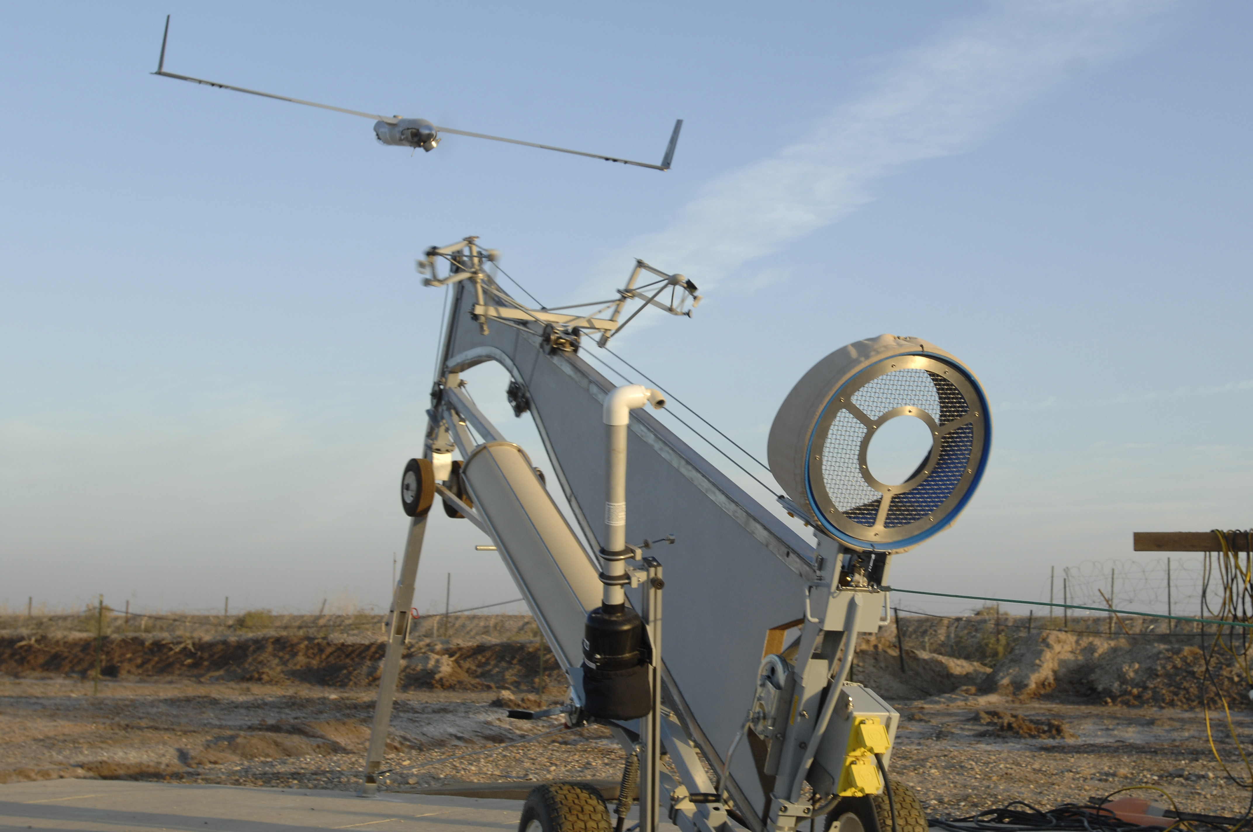 An Australian Scan Eagle unmanned aerial vehicle launches from Ali Air Base, Iraq, Dec. 28, 2007, prior to a mission over Iraq. The Scan Eagle is a low cost, long endurance UAV capable of surveillance of ground activities.